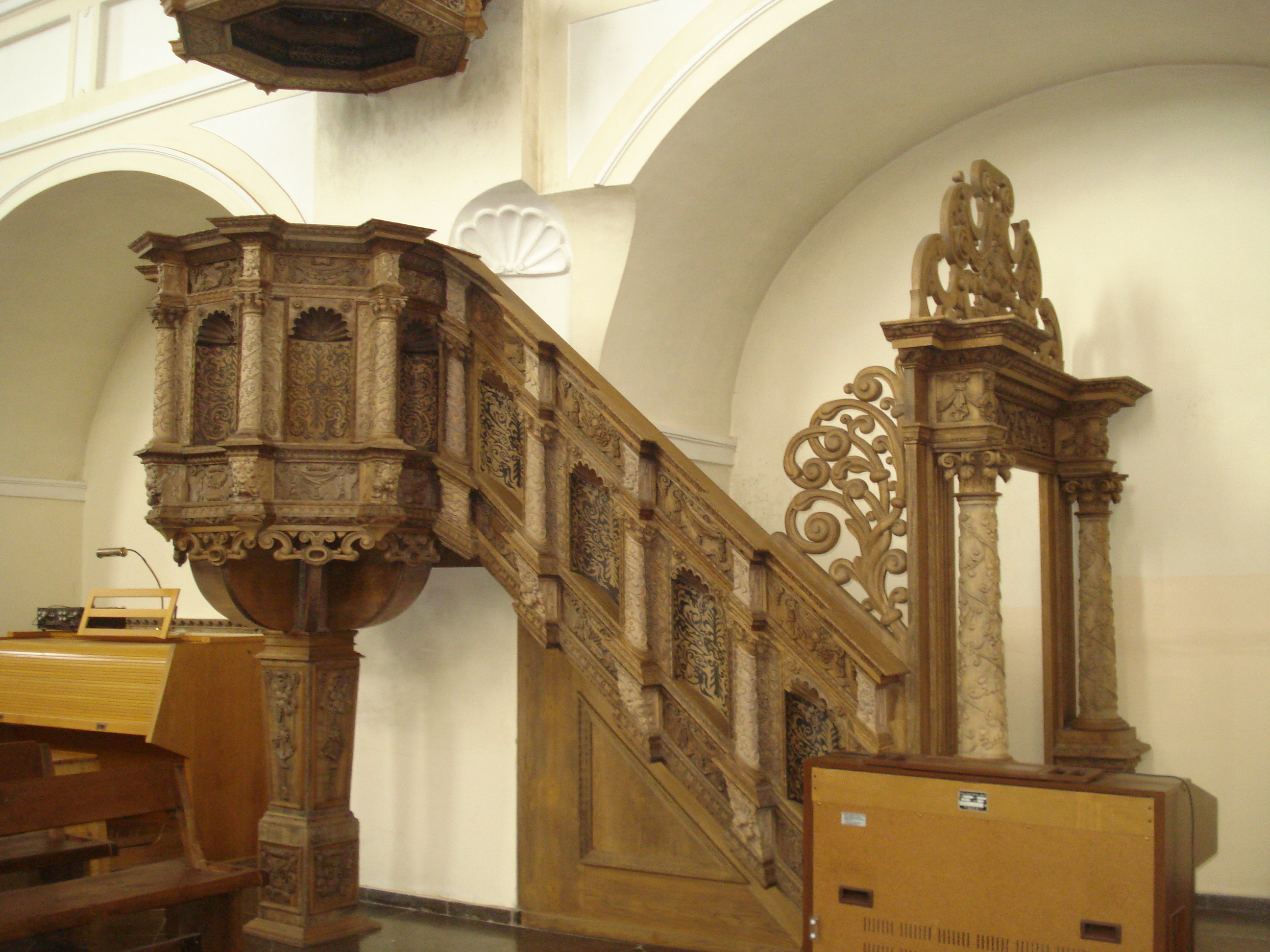 The Renaissance pulpit in the Kėdainiai Evangelical Reformed Church (Lithuania)